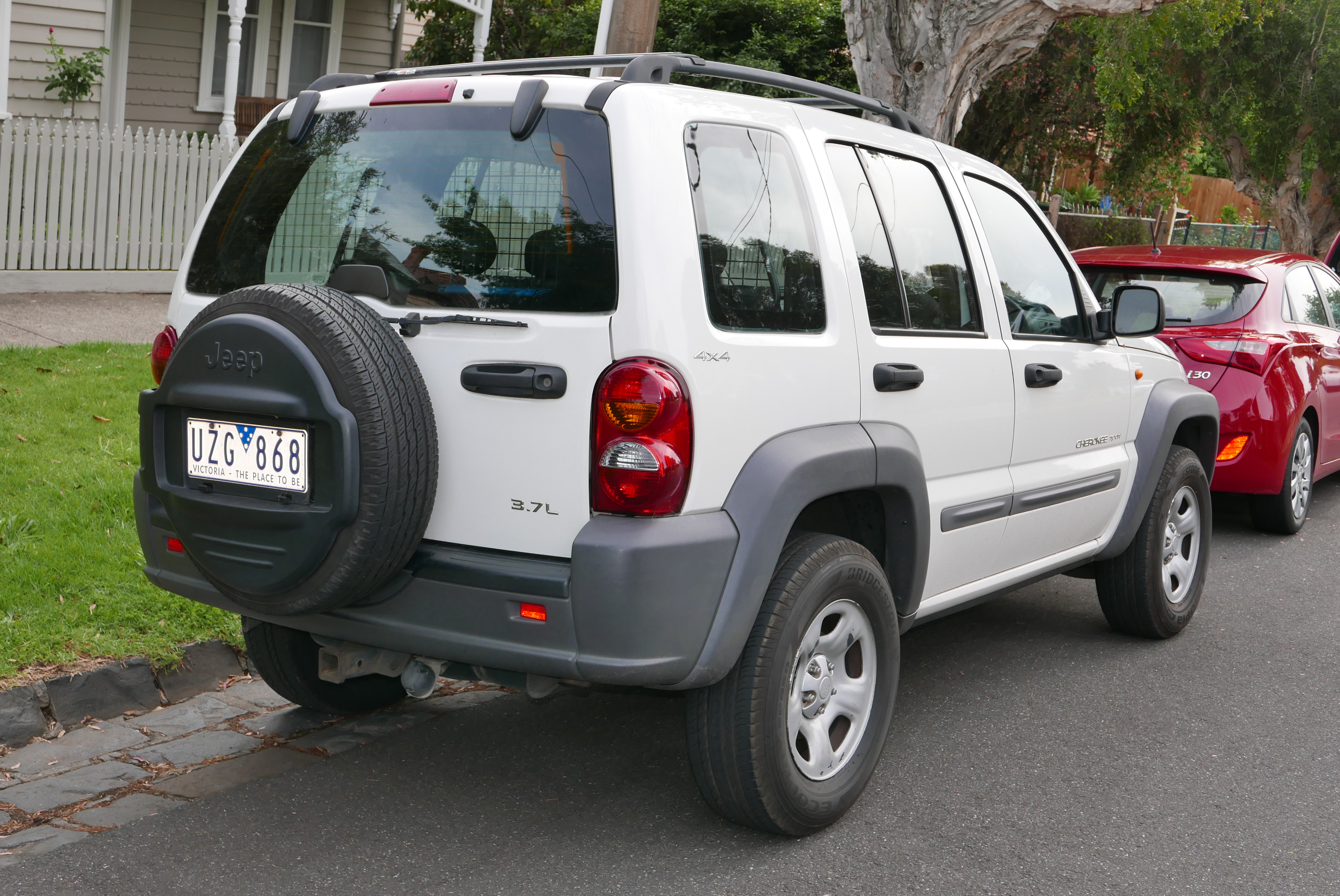 2001 Jeep Cherokee (KJ) Sport wagon. Photographed in Ascot Vale, Victoria, Australia. Vehicle registration enquiry resultsJurisdictionVictoriaRegistrationUZG868Chassis code1J8GM48K72W154620Engine code2W154620Compliance date2001-09Year of manufacture2002 (not a typo)